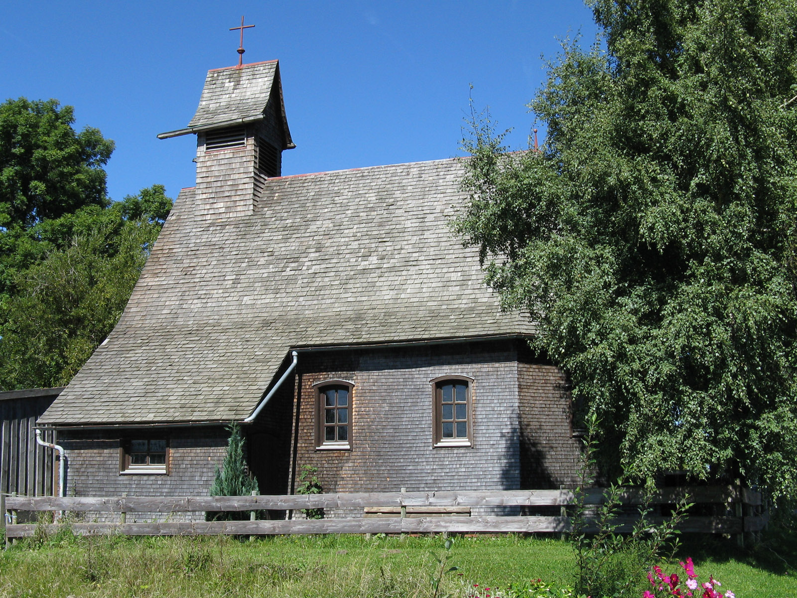 Schmidsreute, chapel